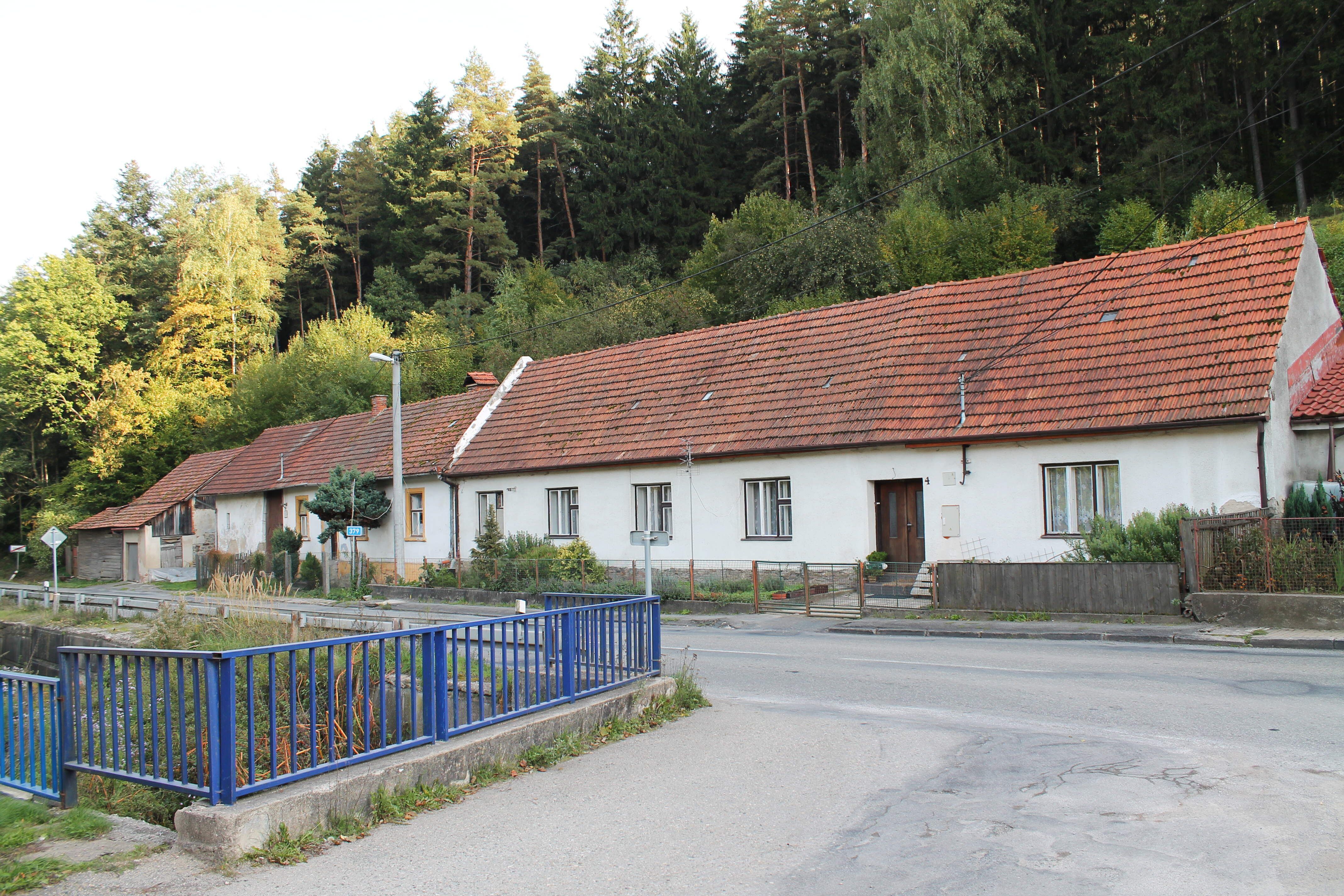 Žernůvka, Nelepeč-Žernůvka, Brno-Country District, Czech Republic - Google Maps - Google Earth